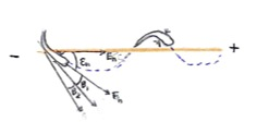 Weakly electric fish will orient themselves in a direction parallel to an electric field by bending their bodies (shown by the B angles) to reduce the angle of their direction (F) with the electric field (E).